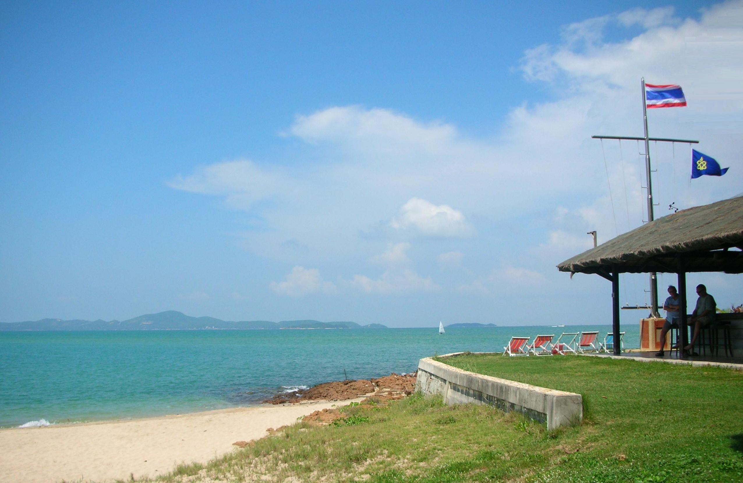 Beach shack of Royal Varuna Yacht Club at one end of the beach, Ko Lan Island in the distance. Pattaya, Thailand